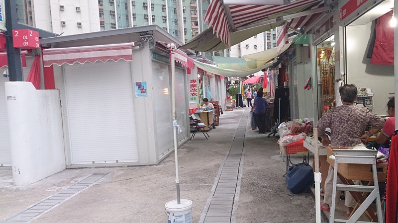 shops